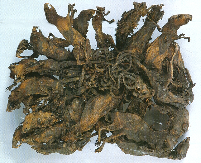 Ratking, preserved at the museum Mauritianum in Altenburg, Germany.